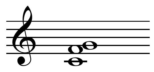 Sus4 chord on C.